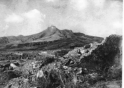 View of Mt. Pelee after the collapse of the volcanic spine.